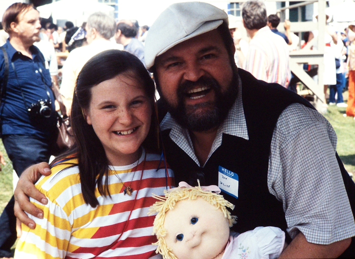 My family took a trip out to California to visit friends, back in the summer of 1983. Some celebrities were having an event for charity and we had some pics taken with them. I was sorry to hear that Dom Deluise died. I didn't know about it until yesterday... I was 10 years old in this pic and I remember him being nice and very friendly... up until my mom asked him where Burt was. lol